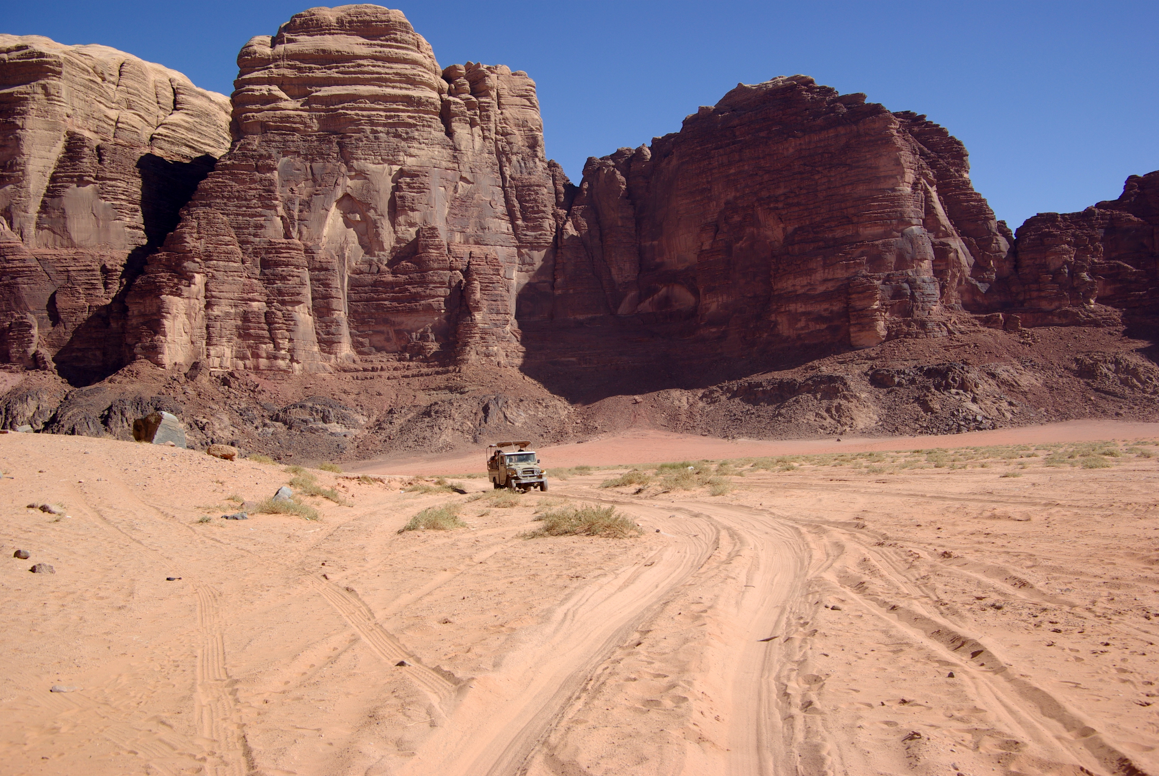 Wadi Rum near Lawrence spring